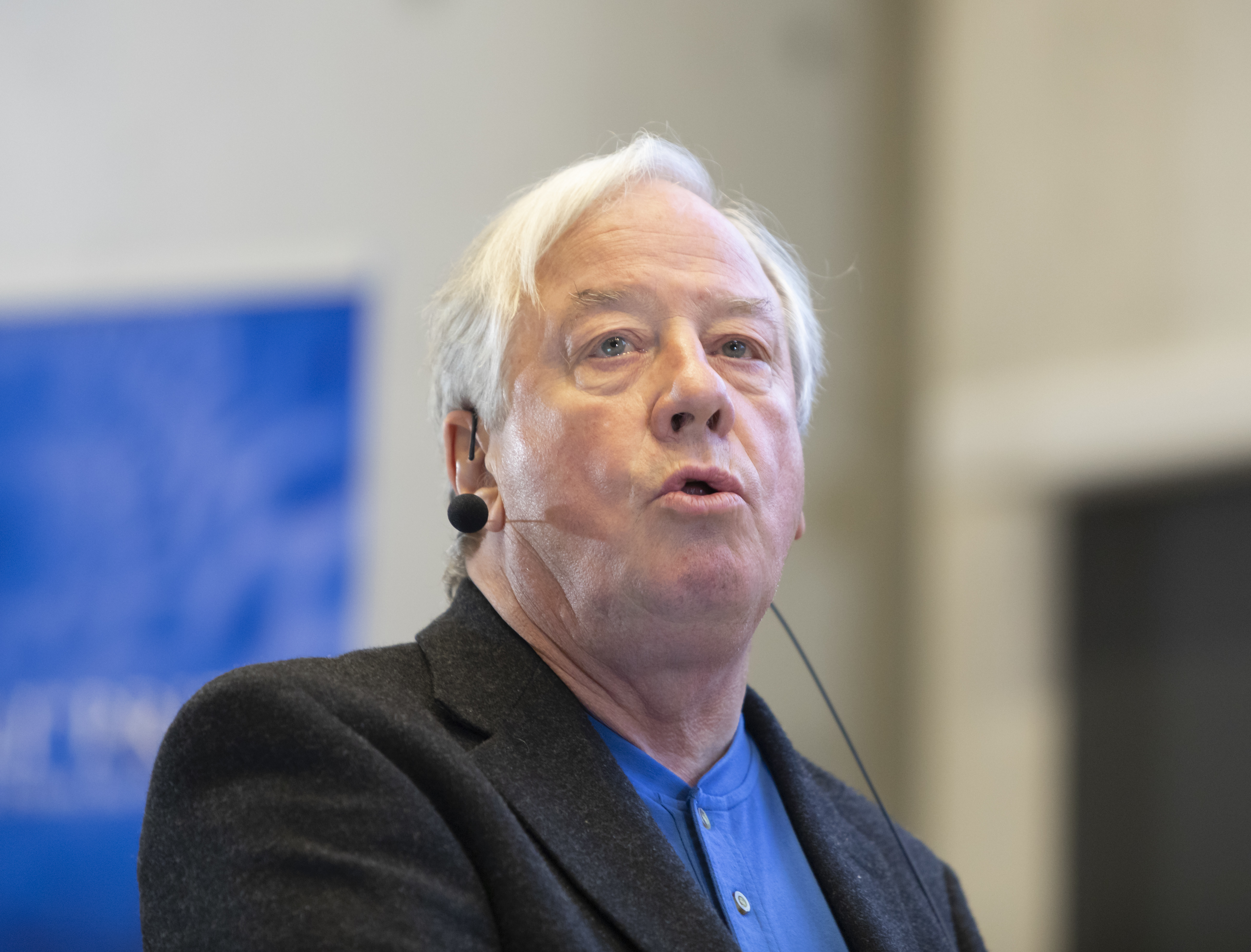 Trondheim 06.09.2018 : The Kavli Prize, Laureate Lectures 2018. Neuroscience prize lecture: Robert Fettiplace. Photo: Thor Nielsen / NTNU